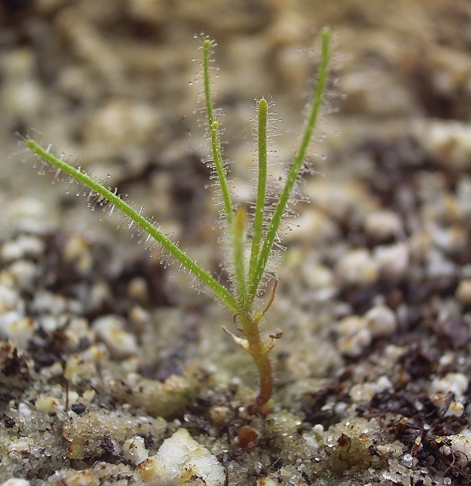 Byblis lamellata young plant Author: Denis Barthel